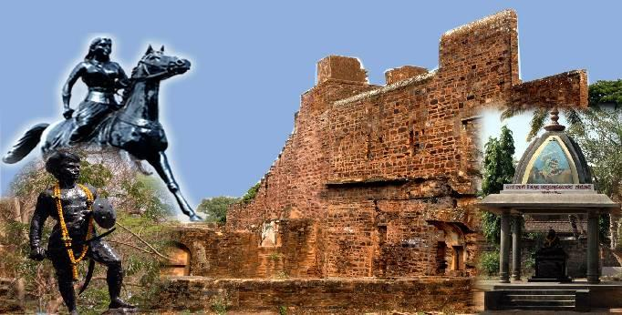 Kittur Author and Source : Manjunath Doddamani, gajendragad, Karnataka (North), India